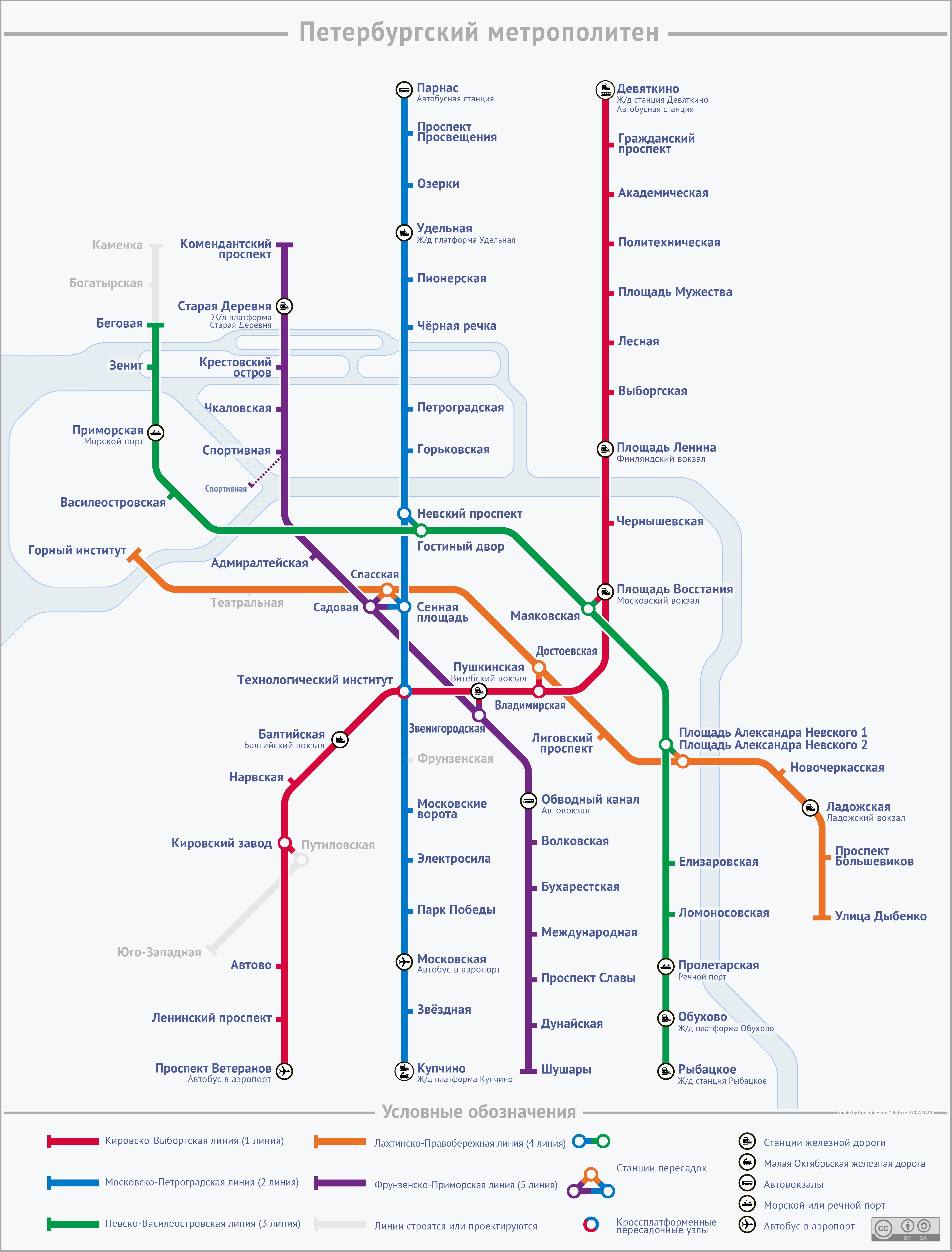 Saint Petersburg metro map. Russian version.